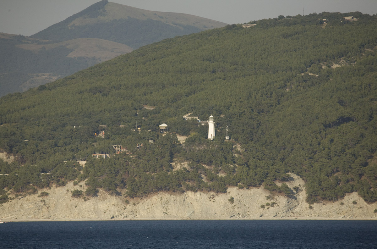 Cape Doob lighthouse, Russia, Black sea, Novorossiysk.